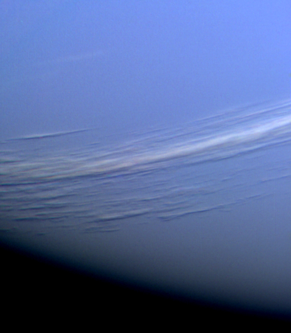 This Voyager 2 high resolution color image, taken 2 hours before closest approach, provides obvious evidence of vertical relief in Neptune's bright cloud streaks. These clouds were observed at a latitude of 29 degrees north near Neptune's east terminator. The linear cloud forms are stretched approximately along lines of constant latitude and the Sun is toward the lower left. The bright sides of the clouds which face the Sun are brighter than the surrounding cloud deck because they are more directly exposed to the sun. Shadows can be seen on the side opposite the sun. These shadows are less distinct at short wavelengths (violet filter) and more distinct at long wavelengths (orange filter). This can be understood if the underlying cloud deck on which the shadow is cast is at a relatively great depth, in which case scattering by molecules in the overlying atmosphere will diffuse light into the shadow. Because molecules scatter blue light much more efficiently than red light, the shadows will be darkest at the longest (reddest) wavelengths, and will appear blue under white light illumination. The resolution of this image is 11 kilometers (6.8 miles per pixel) and the range is only 157,000 kilometers (98,000 miles). The width of the cloud streaks range from 50 to 200 kilometers (31 to 124 miles), and their shadow widths range from 30 to 50 kilometers (18 to 31 miles). Cloud heights appear to be of the order of 50 kilometers (31 miles).